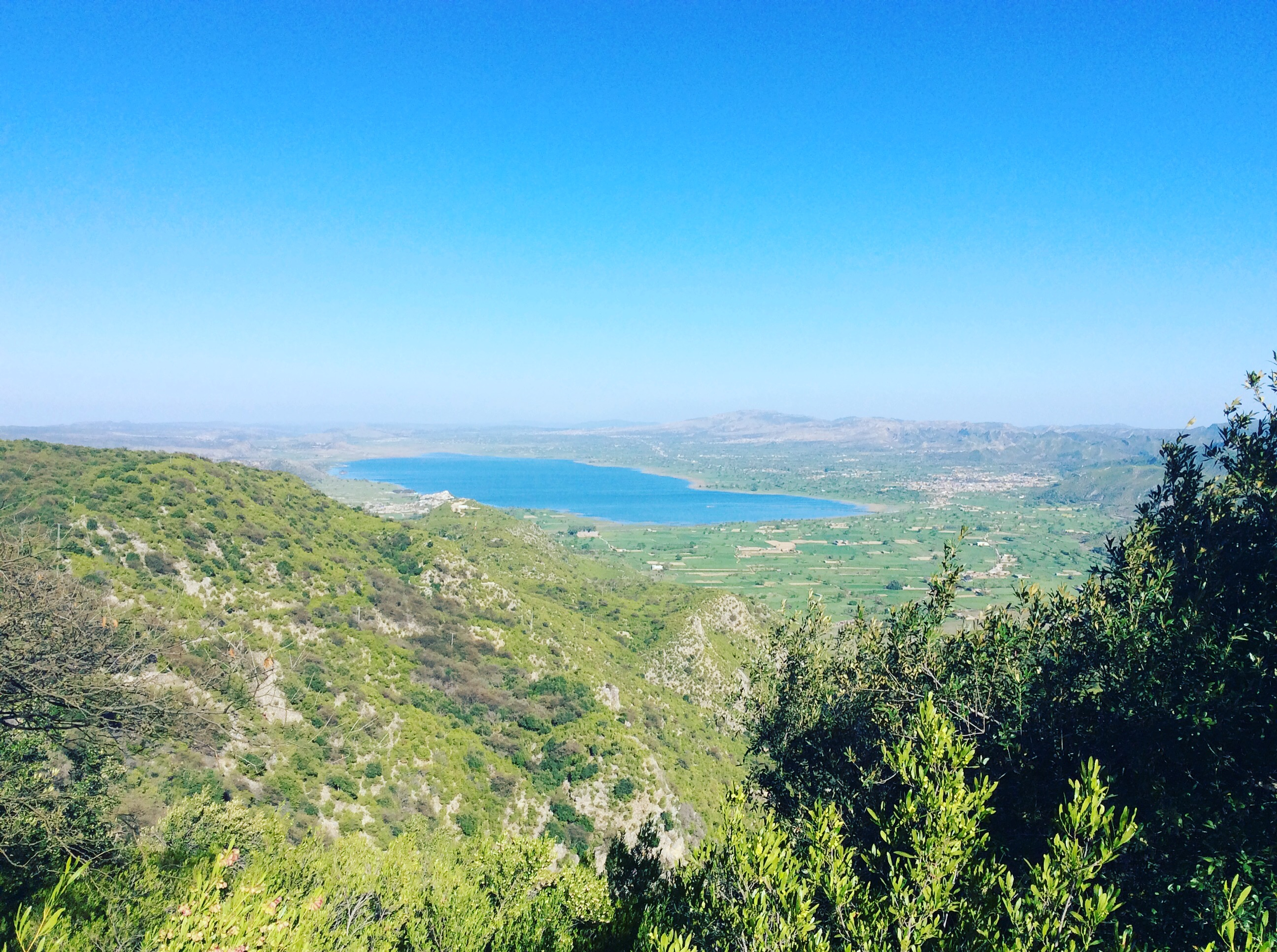 This is the Soan Sakesar Valley, District Khushab, Punjab, Pakistan. View towards Uchhali Lake.